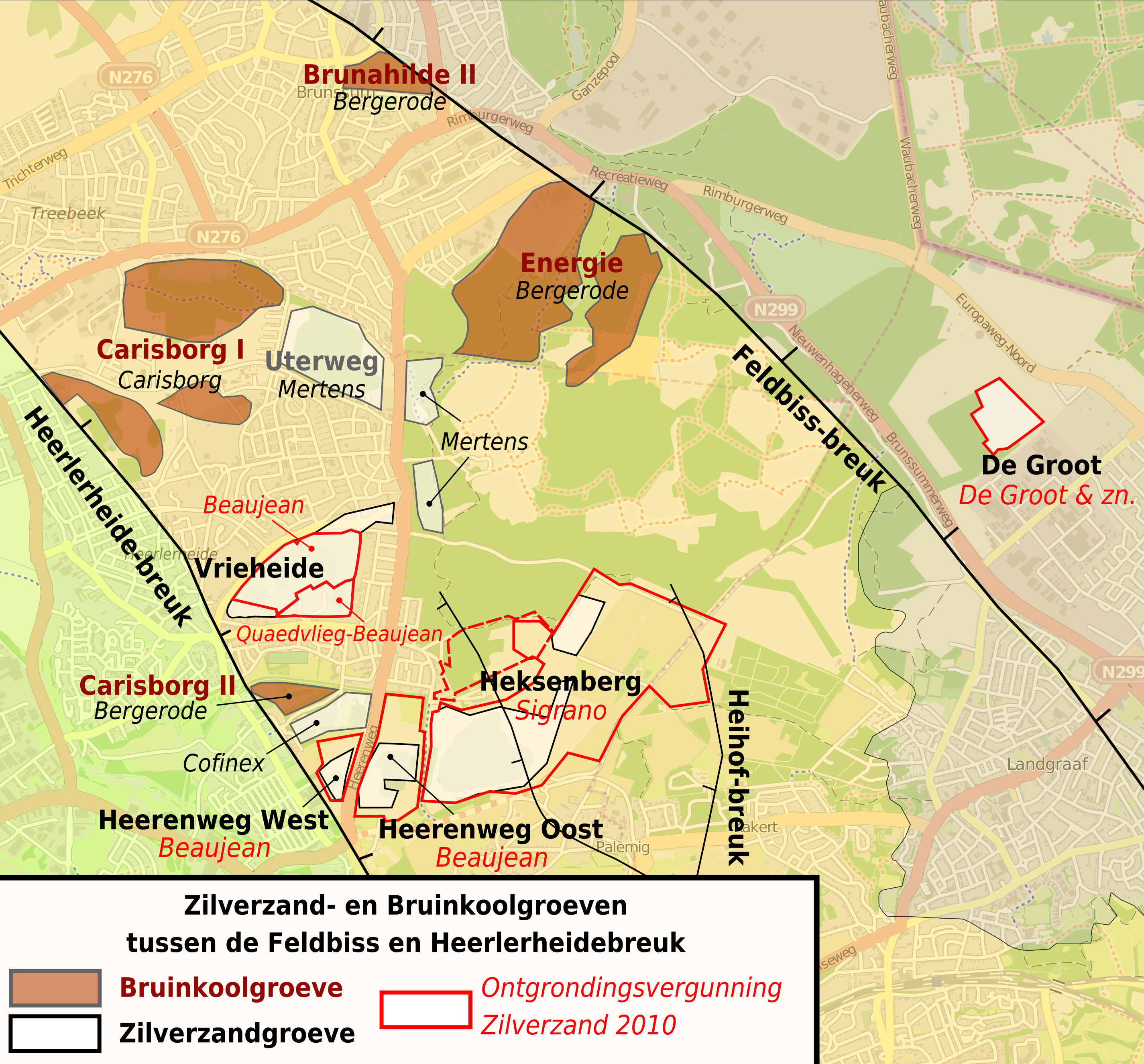 Lignite and quartzsand quarries between the Feldbiss and Heerlerheide faults, Limburg, The Netherlands